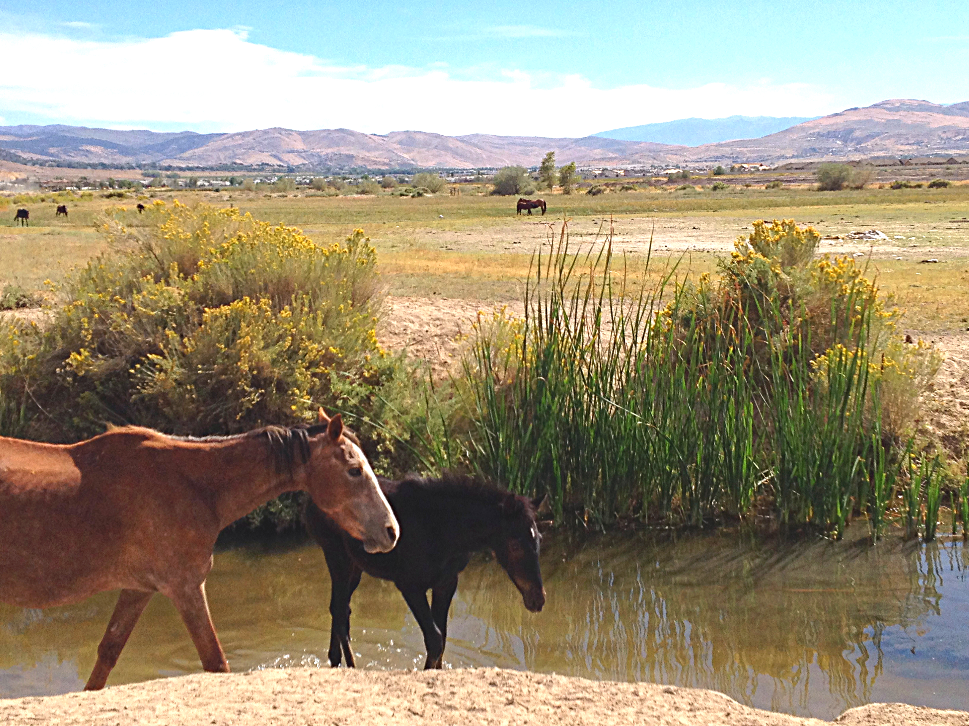 Image taken September 1, 2016 One of the last images of the Wild Mustangs in the Truckee Meadows prior to a rapid expansion of homes. Steamboat Creek in the foreground with Carson City to the south. Construction is underway for 2000+ homes within the Truckee Meadow of east Reno Nevada.